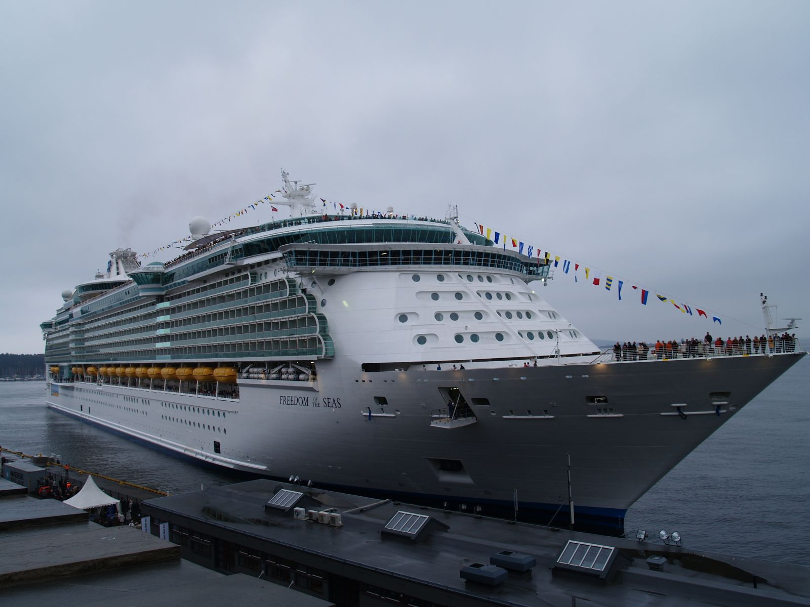 The cruiseship Freedom of the Seas in Oslo, April 26, 2006. Image shot by myself, from the old Akershus Castle.